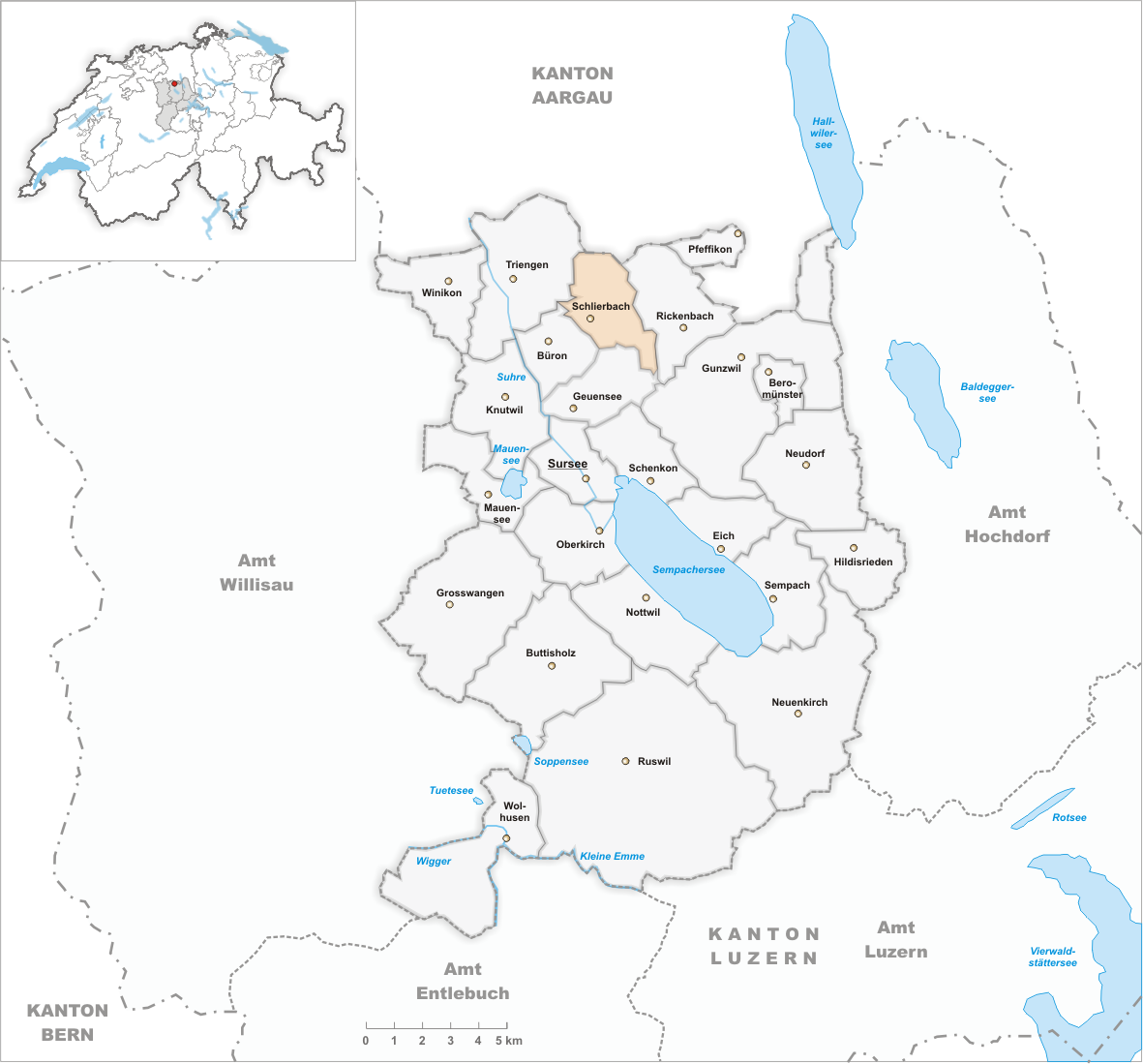 Municipality Schlierbach